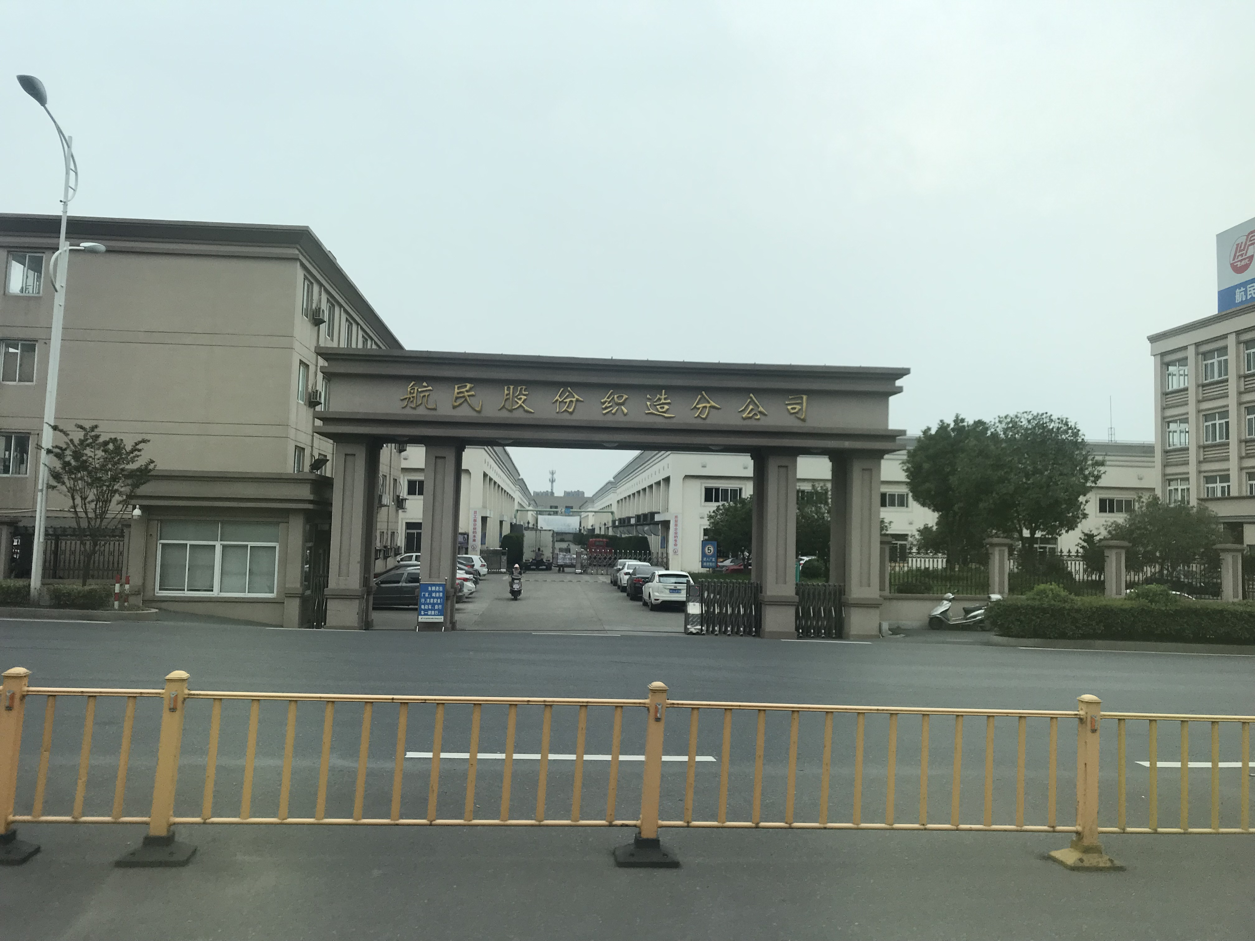 Local enterprise (SHA 600987)